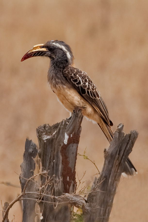 A female African Grey Hornbill in Serengeti, Tanzania.